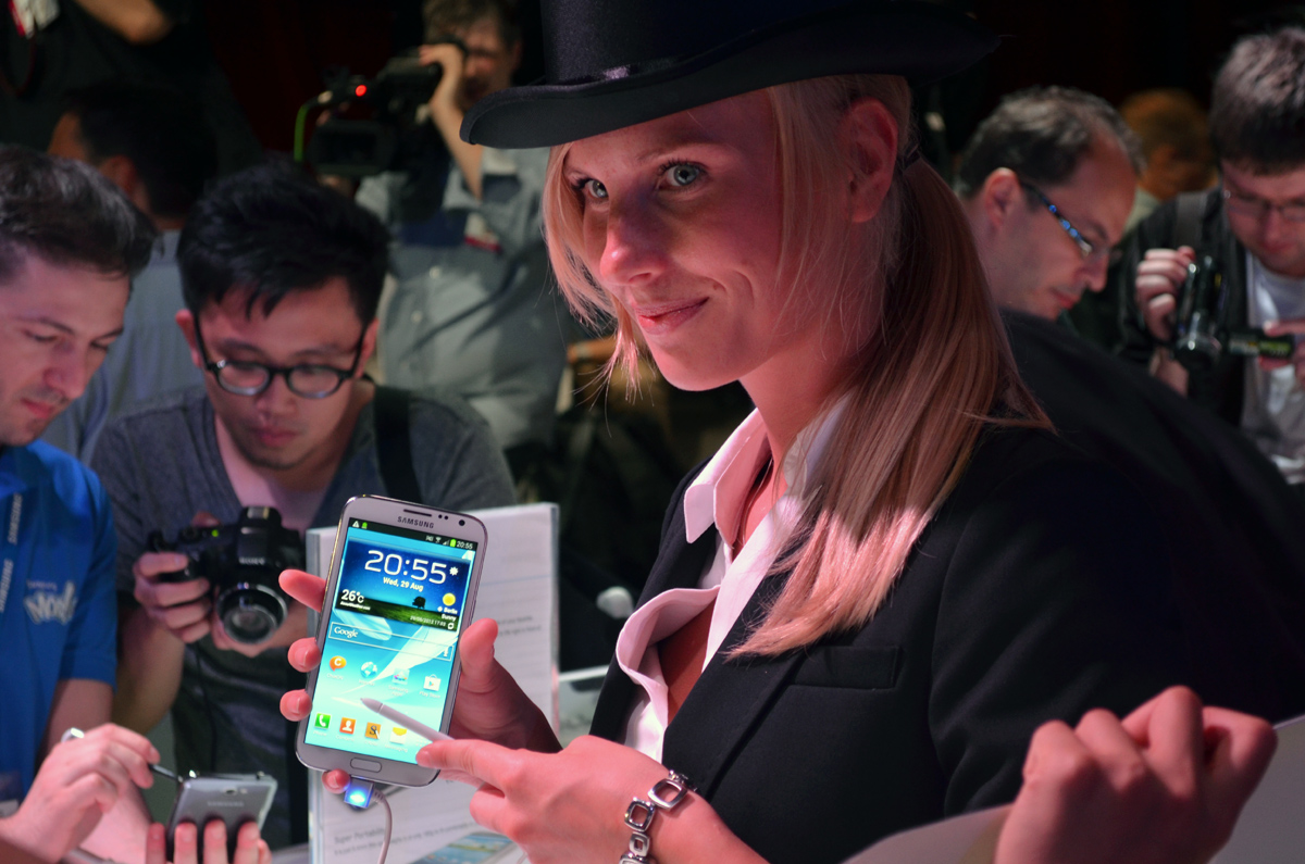 a Samsung Galaxy Note II phablet